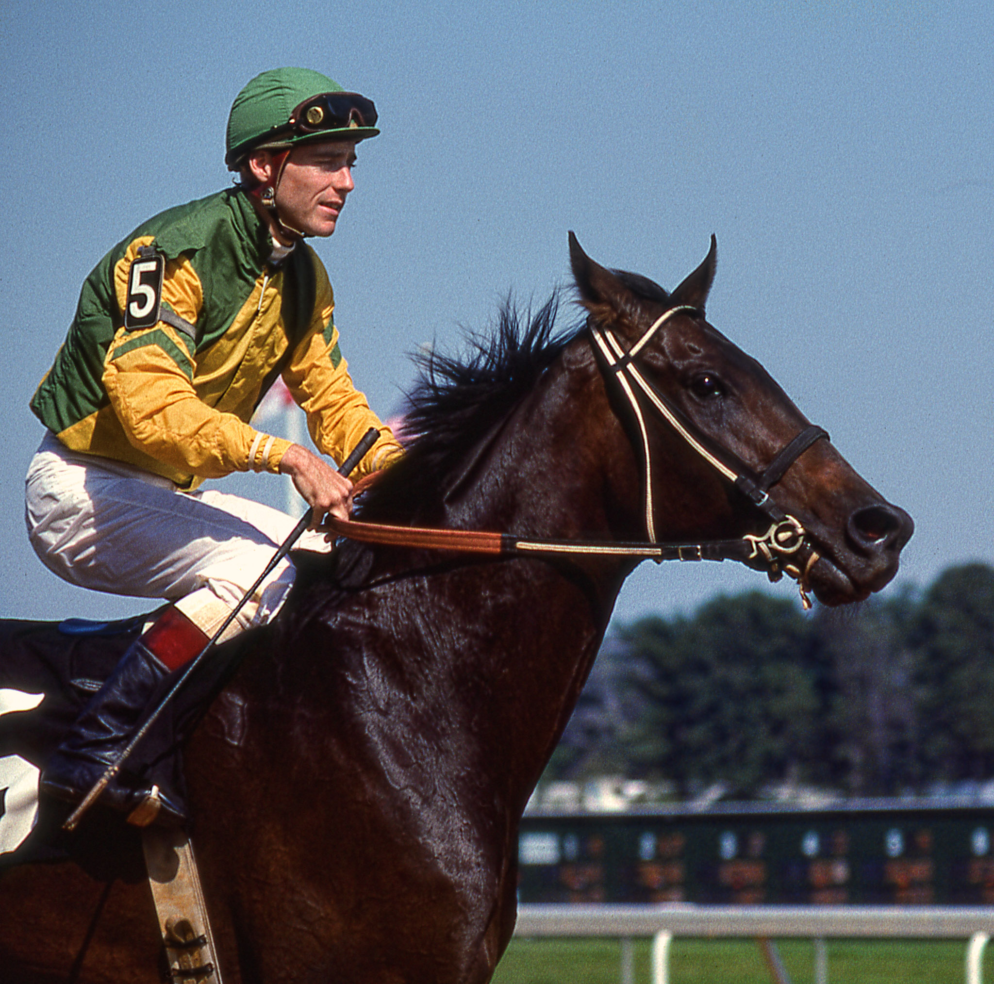 Race Horse with Jockey